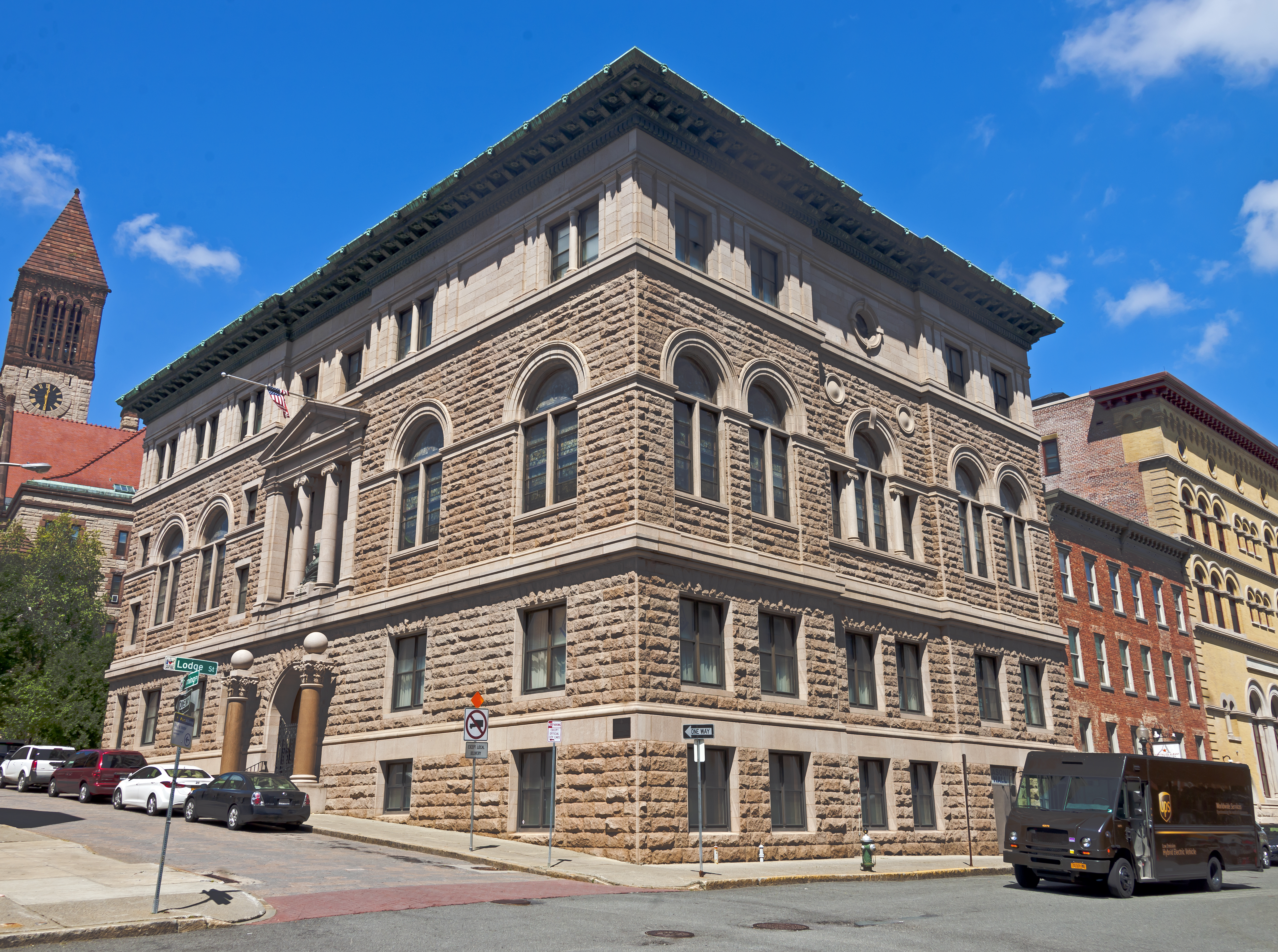 Albany Masonic Temple, home to the oldest continuously existing lodge in the U.S.